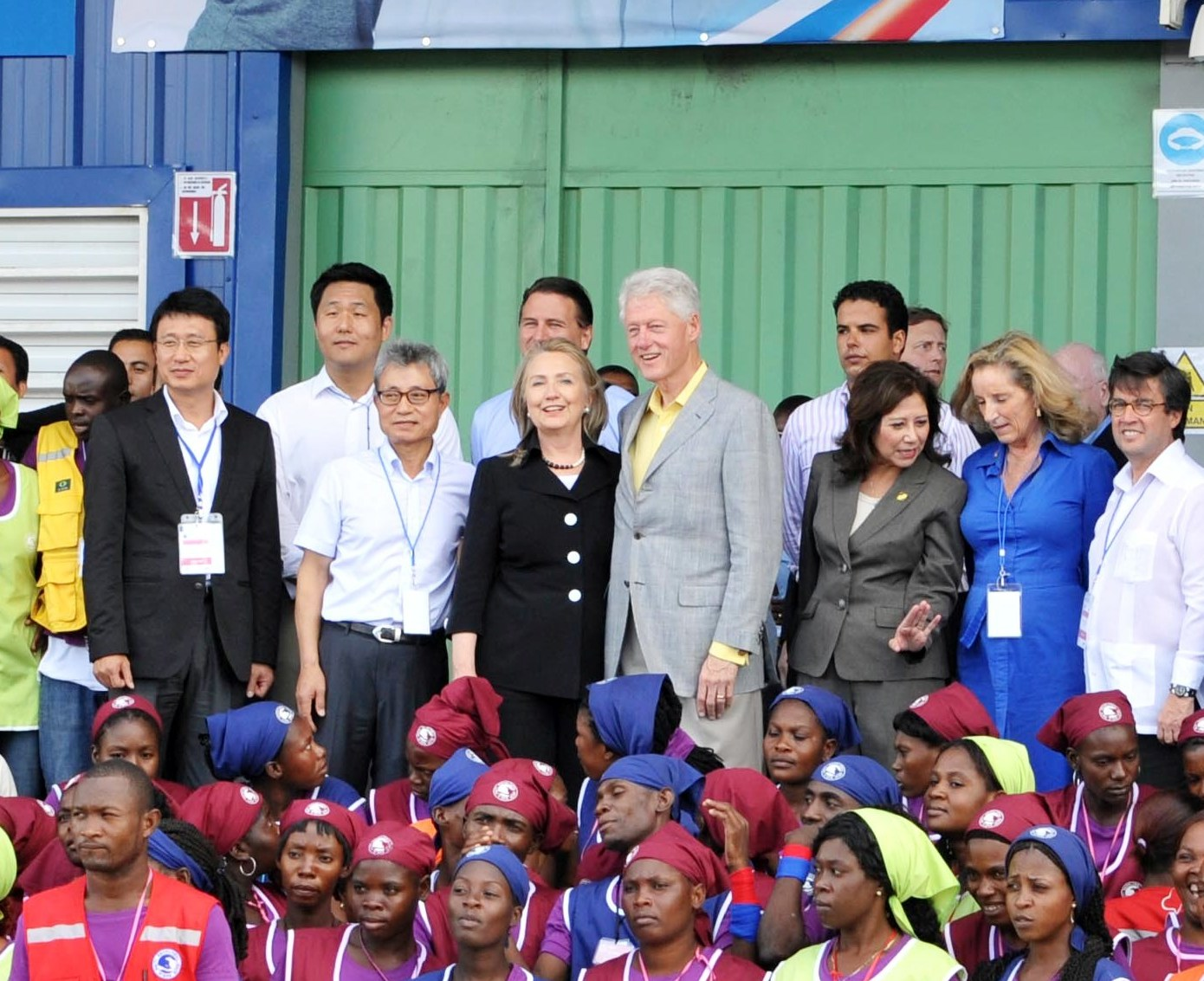 President Bill Clinton and U.S. Secretary of State Hillary Rodham Clinton pose for a photo with workers outside the Sae-A garment factory at Caracol Industrial Park ahead of the park’s inauguration in Haiti, October 22, 2012. [Photo copyright Kendra Helmer/USAID. Photo credit is mandatory.]